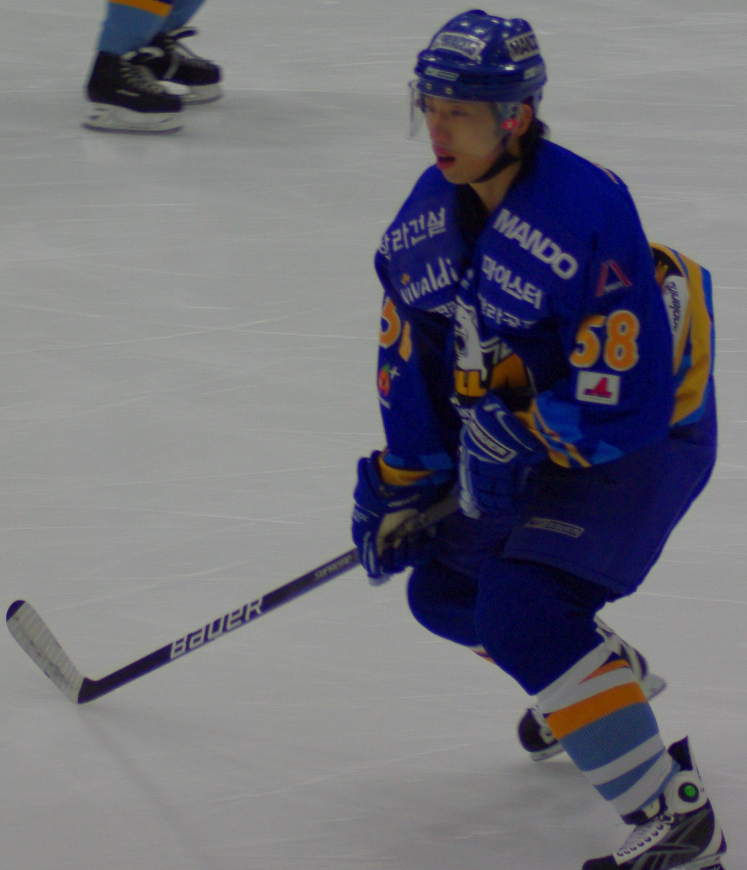 Lee Seung-yup playing for Anyang Halla